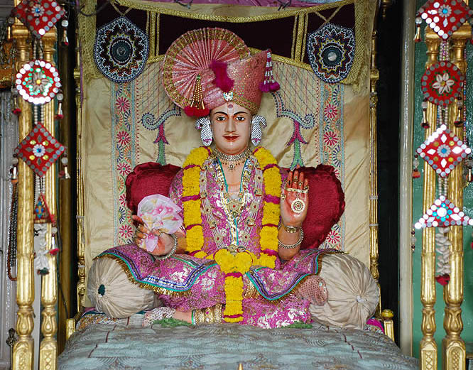 Ghanshayam Maharaj at Akshar Bhuvan in Vadtal Temple.